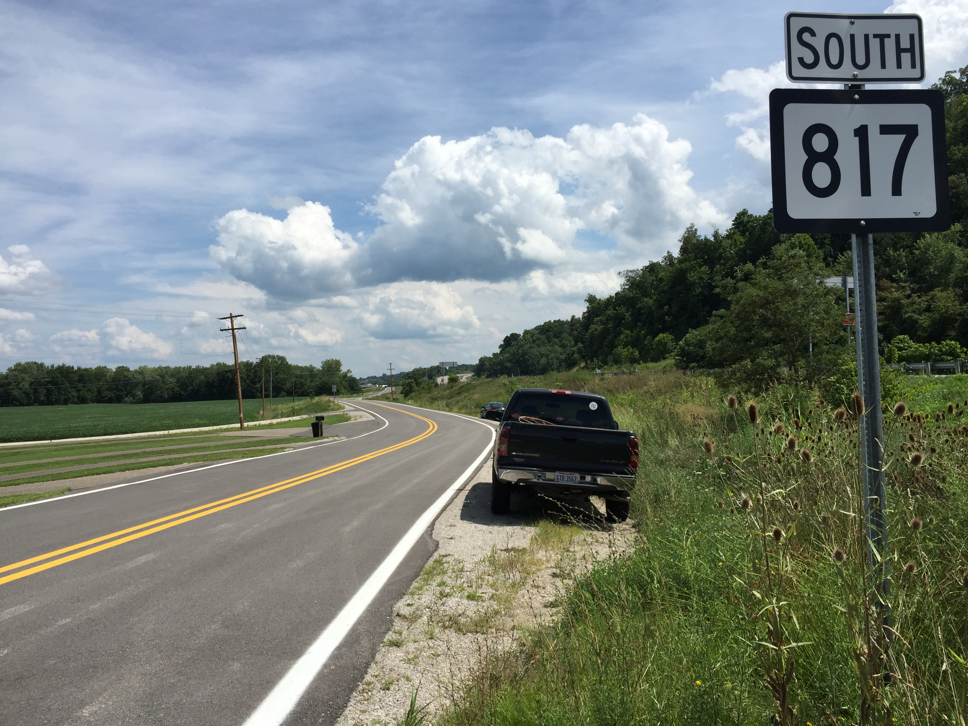 View south along West Virginia State Route 817 (Kanawha Valley Road) at U.S. Route 35 just southeast of Henderson in Mason County, West Virginia